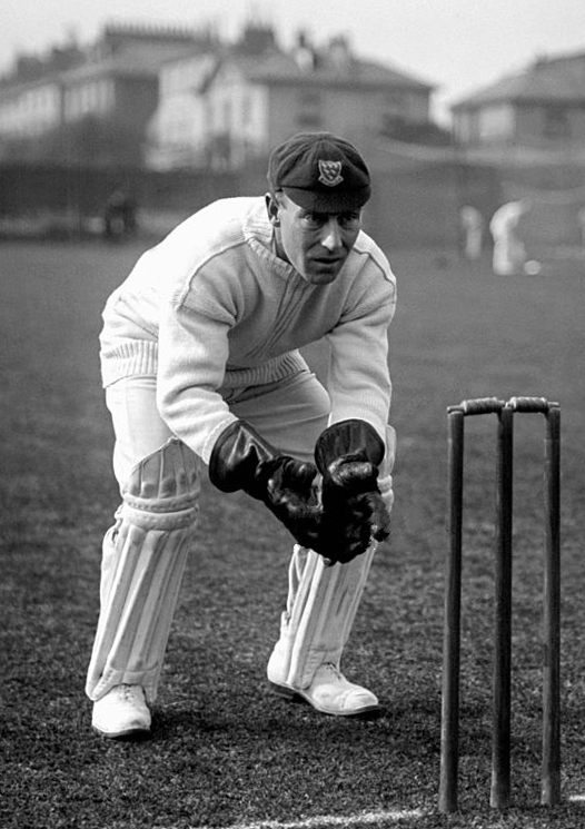 Henry Rigden Butt, Sussex and England, circa 1905.